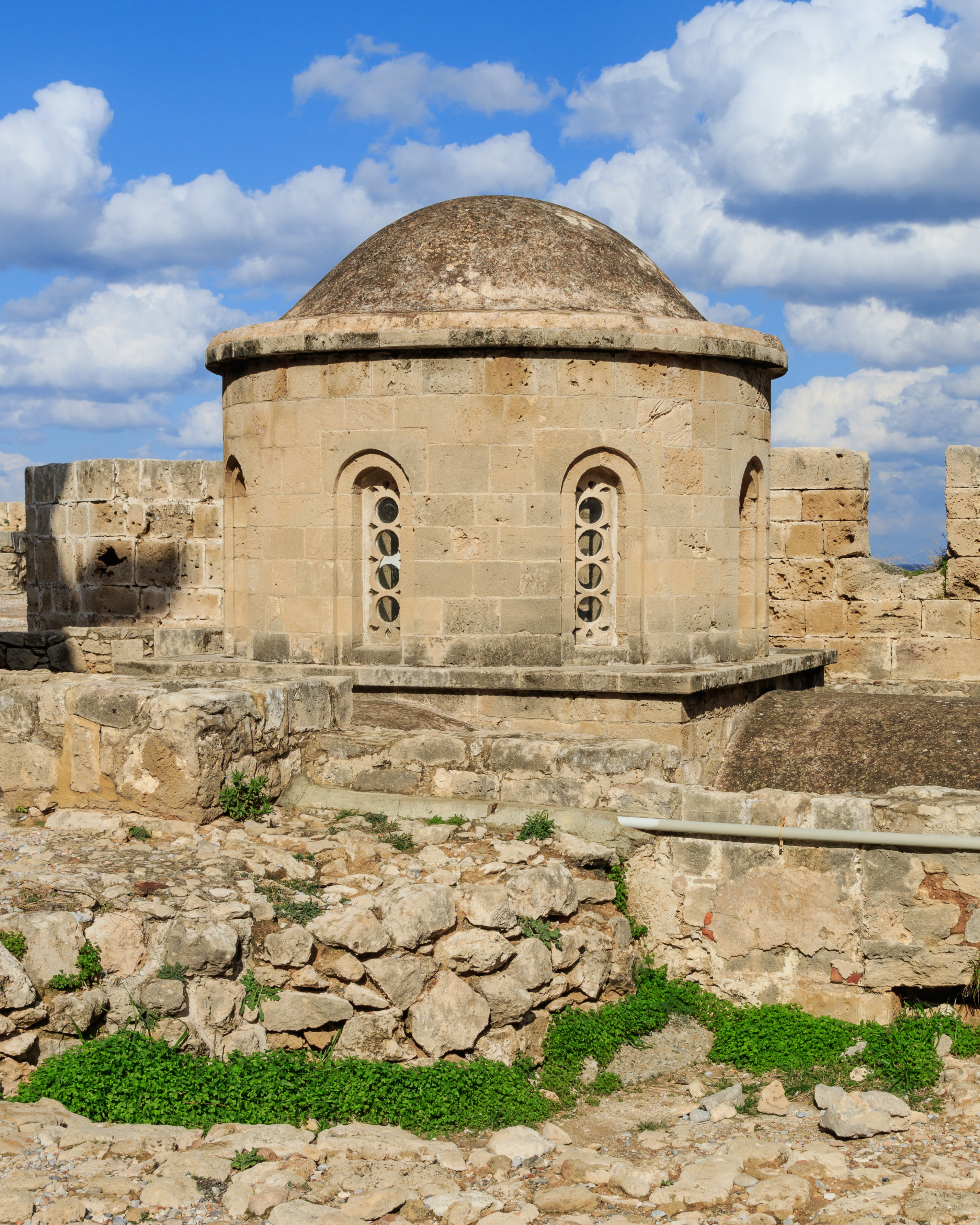 Byzantine chapel inside the castle in Kyrenia, Cyprus